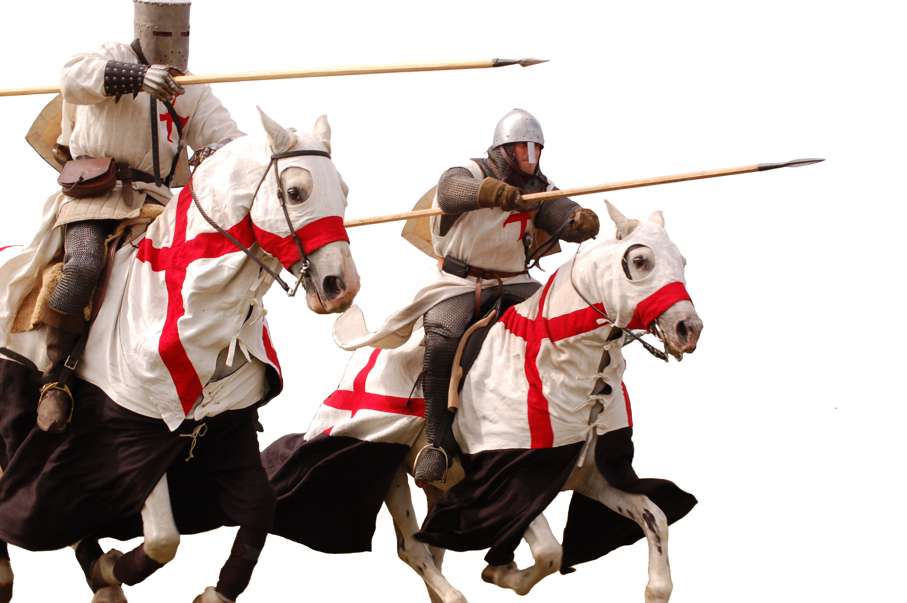 Picture taken at a show at the Danish National Museum of Military History